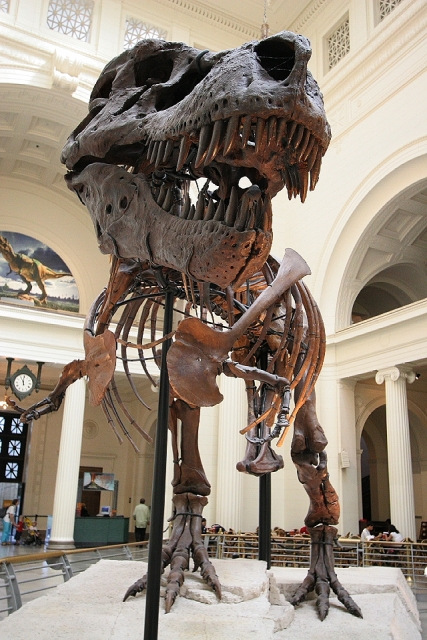 Sue with Recreated Head, Field Museum, Chicago, Illinois. By Robert Lawton (self), 2005.